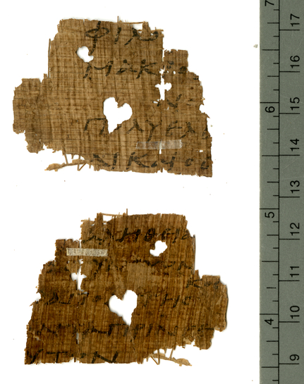 Papyrus Oxyrhynchus 5128